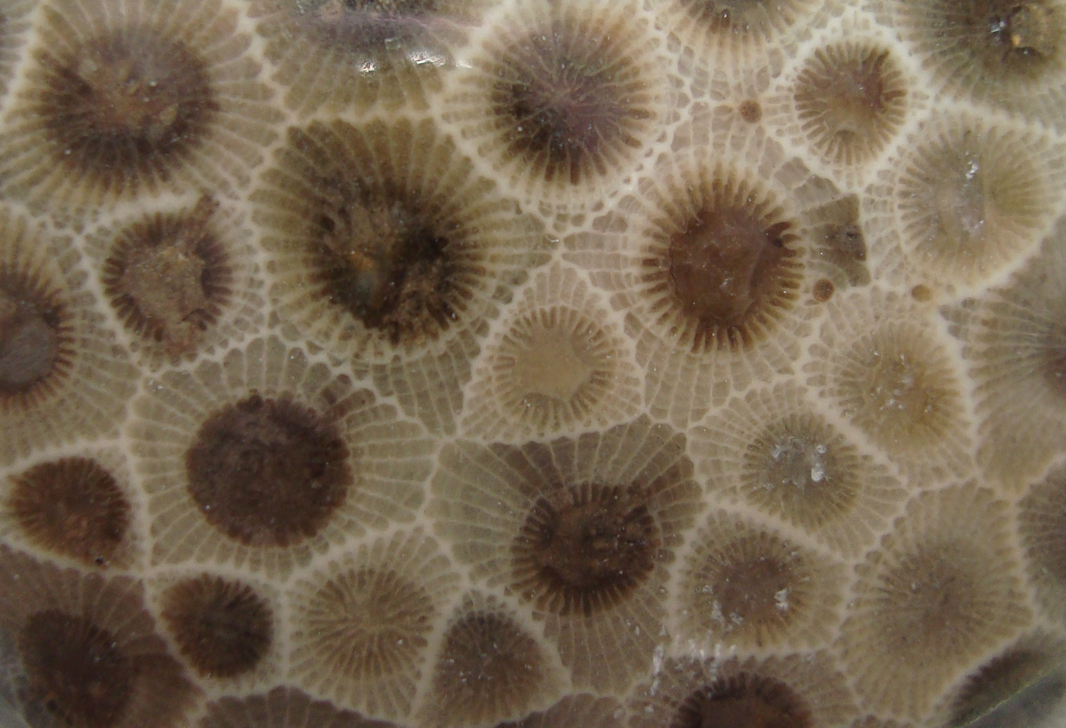 a petoskey stone, Hexagonaria